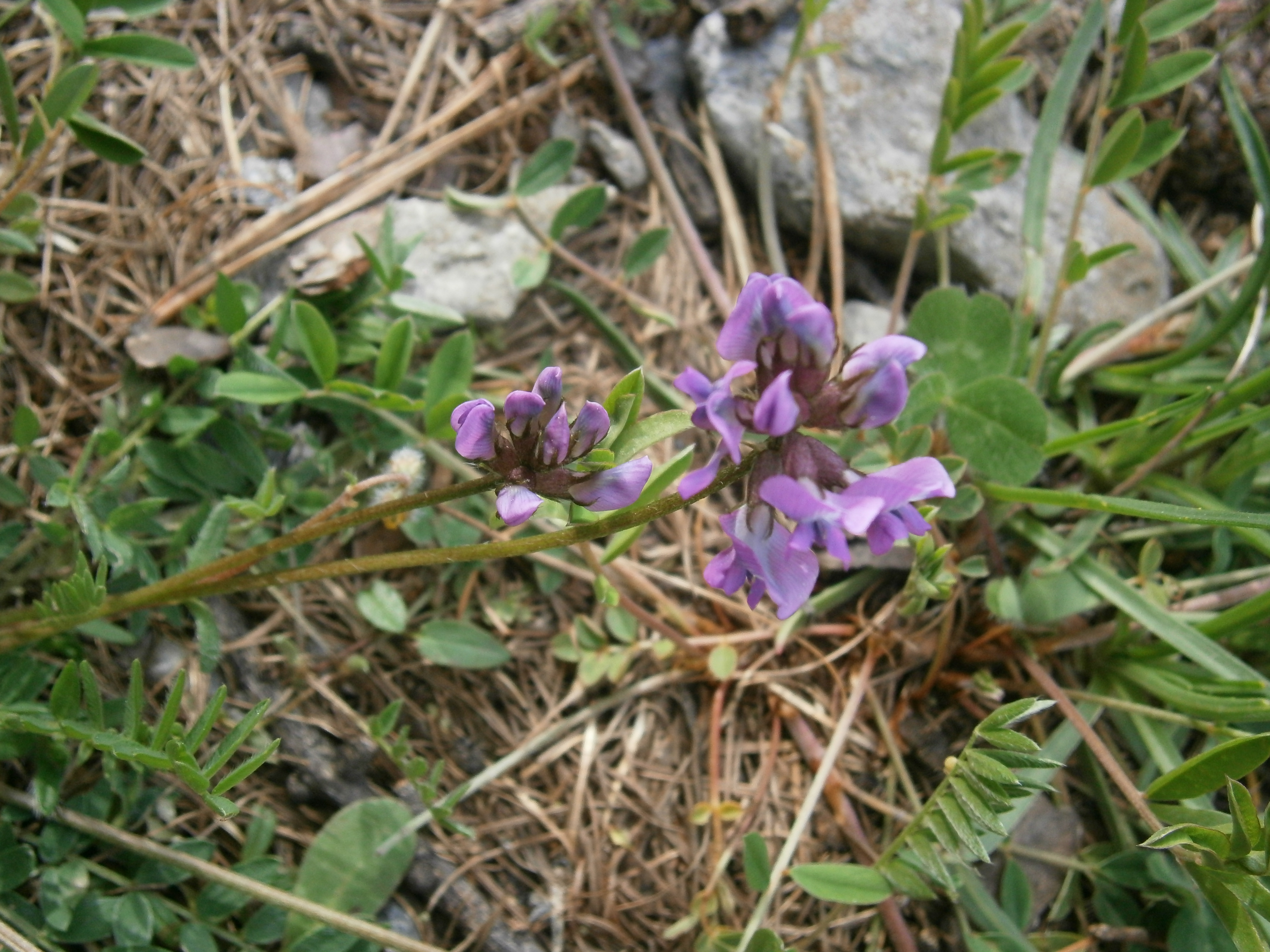 Oxytropis lapponica close-up